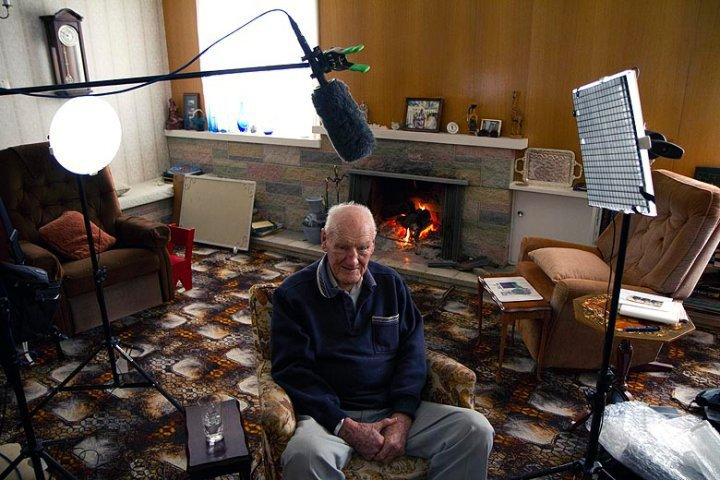 Photograph of Phil Lamason taken in June 2010 while he was being interviewed by Mike Dorsey for the documentary film, Lost Airmen of Buchenwald. I contacted Mike Dorsey in June 2011 and he gave me permission to use this photograph for Phil Lamason's article on Wikipedia under the free documentation license.